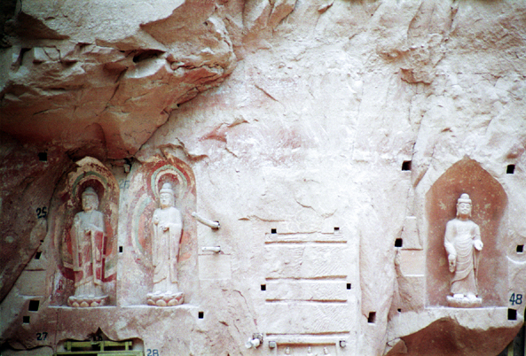 Bingling Temple, Gansu, China Photo by Christopher M. Cline